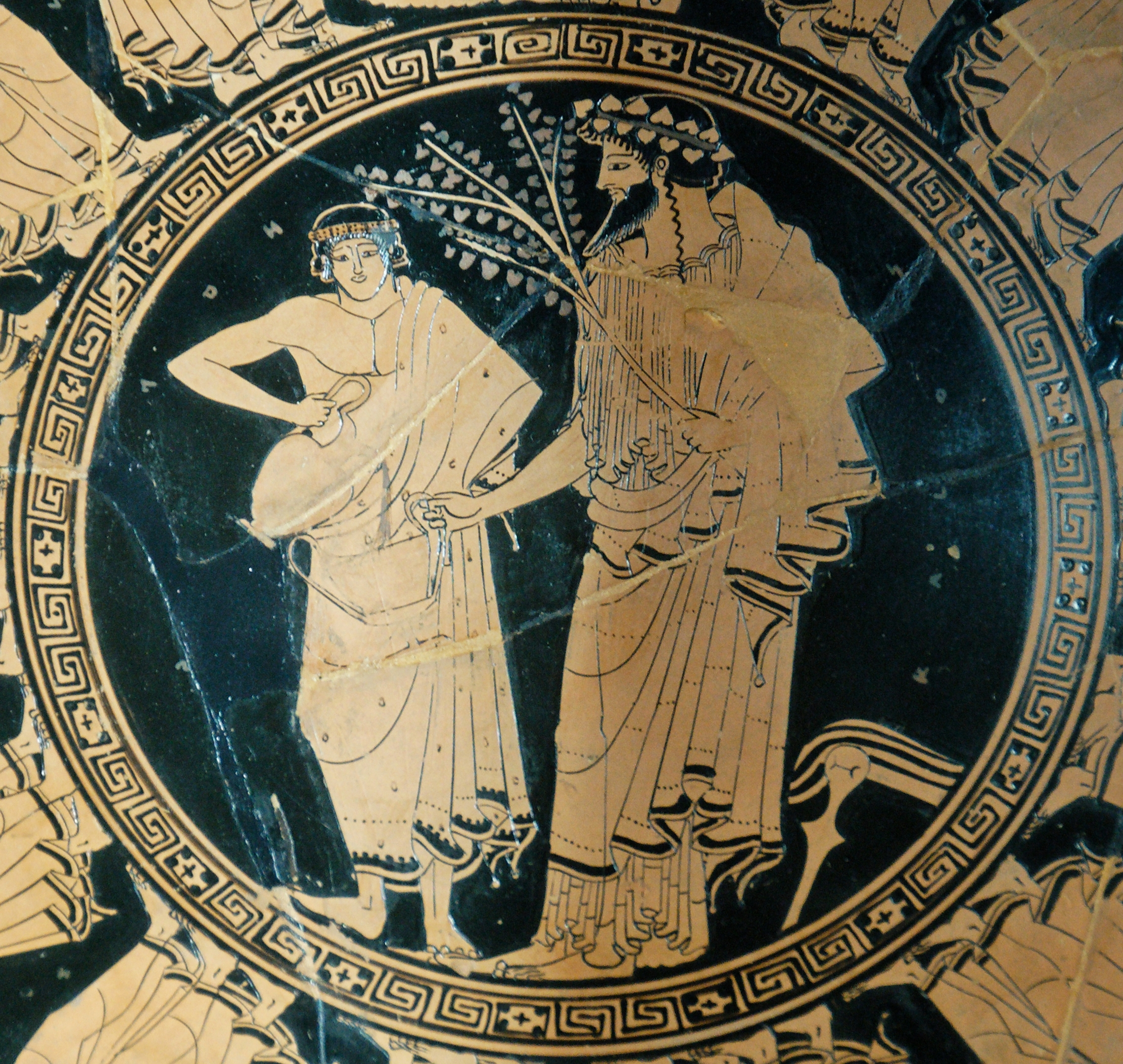 Youth pouring wine with an oinochoe in Dionysos' kantharos. Tondo from an Attic red-figure kylix, ca. 480 BC.